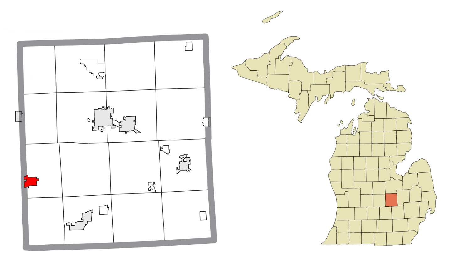 Laingsburg, MI